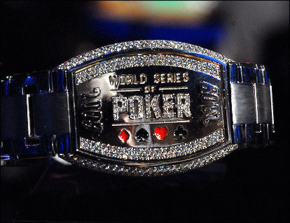 2009 World Series of Poker Main Event bracelet